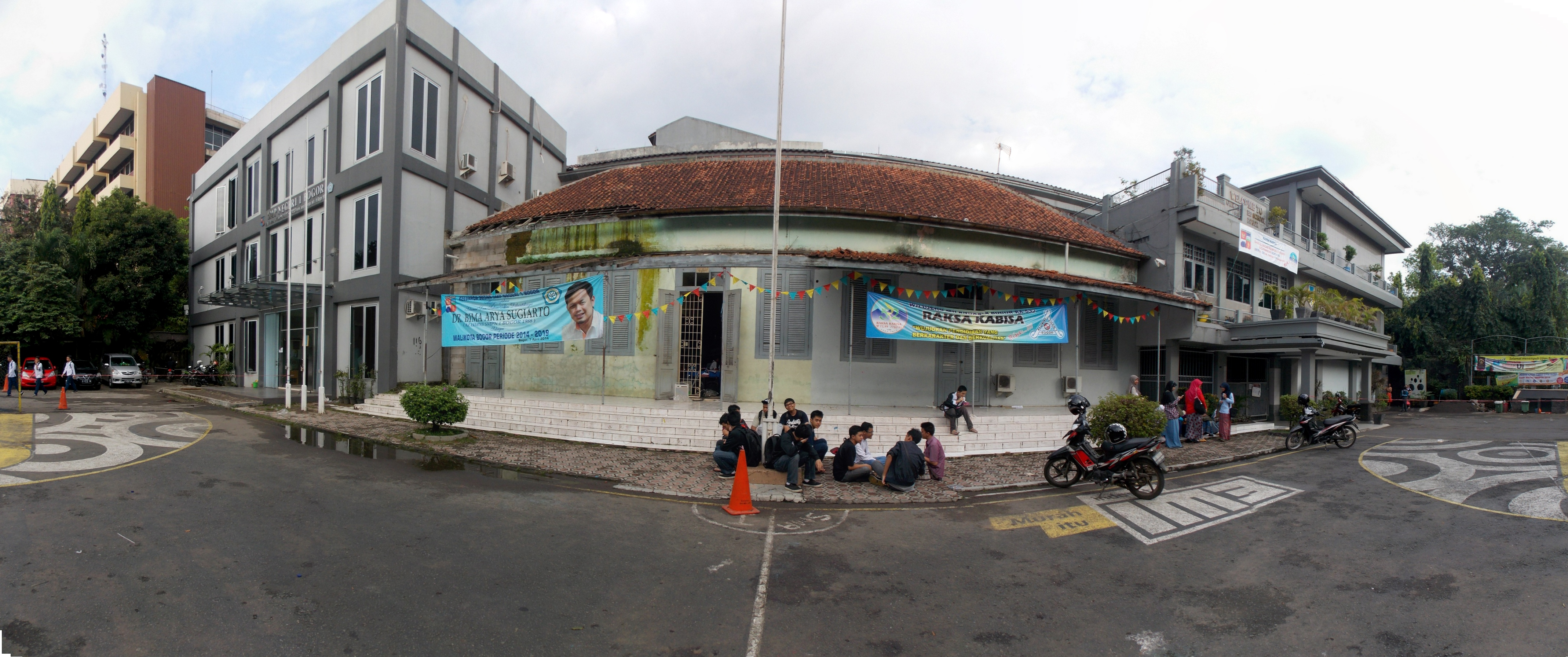 A panoramic view of SMA Negeri 1 Bogor (senior high school) and SMP Negeri 1 Bogor (junior high school). The photo was takn from outer basketball field.